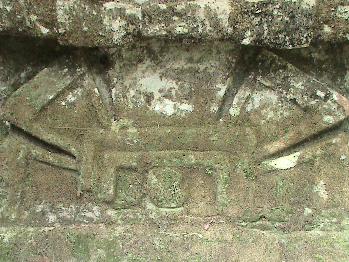 Teotihuacan-related symbol in the talud-tablero facade of Structure 5D-43 at Tikal. The Code of Kings by Linda Schele and Peter Mathews, ISBN 978-0-684-85209-6. p72.